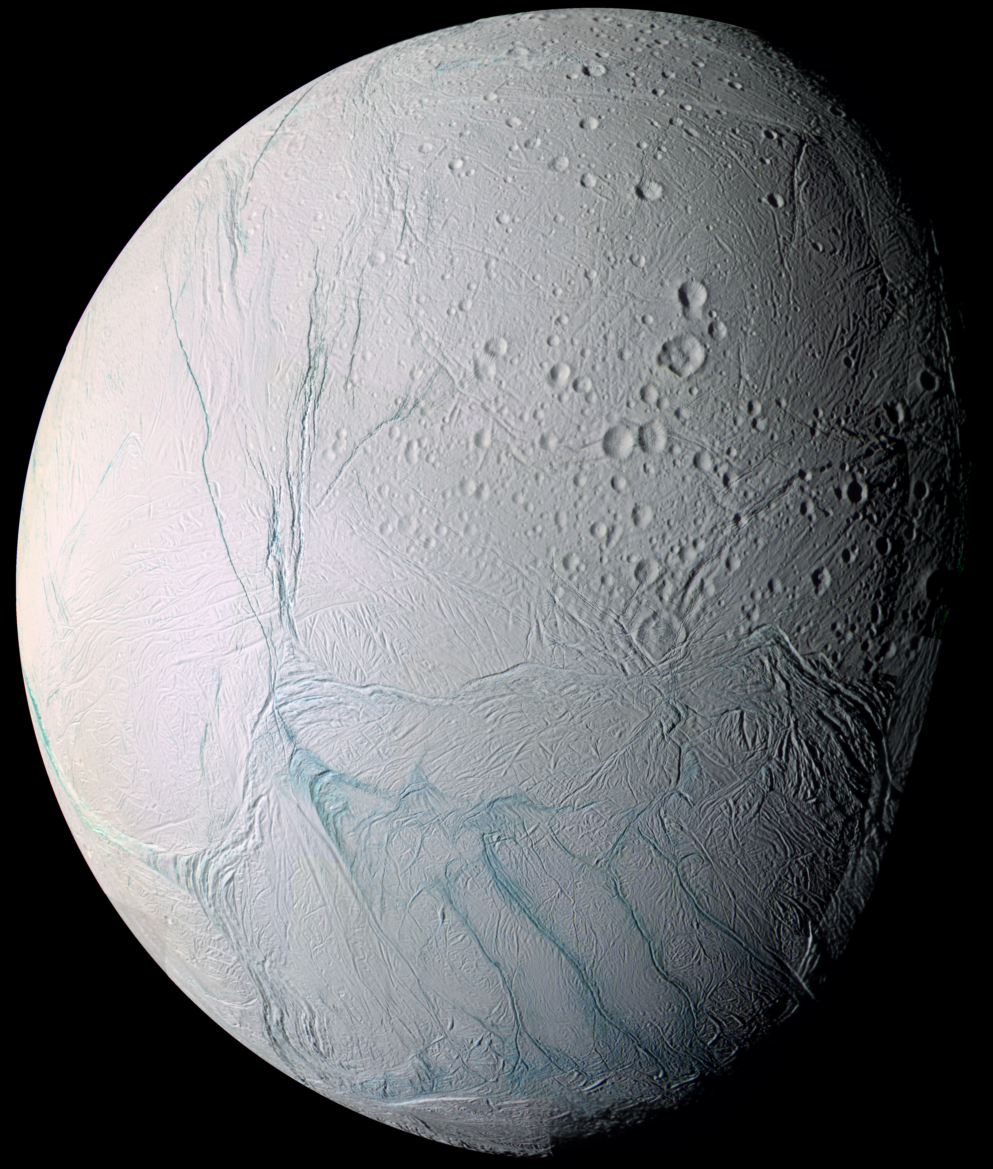 As it swooped past the south pole of Saturn's moon Enceladus on July 14, 2005, Cassini acquired high resolution views of this puzzling ice world. From afar, Enceladus exhibits a bizarre mixture of softened craters and complex, fractured terrains. This large mosaic of 21 narrow-angle camera images have been arranged to provide a full-disk view of the anti-Saturn hemisphere on Enceladus. This mosaic is a false-color view that includes images taken at wavelengths from the ultraviolet to the infrared portion of the spectrum, and is similar to another, lower resolution false-color view obtained during the flyby (see PIA06249). In false-color, many long fractures on Enceladus exhibit a pronounced difference in color (represented here in blue) from the surrounding terrain. A leading explanation for the difference in color is that the walls of the fractures expose outcrops of coarse-grained ice that are free of the powdery surface materials that mantle flat-lying surfaces. The original images in the false-color mosaic range in resolution from 350 to 67 meters (1,148 to 220 feet) per pixel and were taken at distances ranging from 61,300 to 11,100 kilometers (38,090 to 6,897 miles) from Enceladus. The mosaic is also part of a movie sequence of images from this flyby (see PIA06253). The Cassini-Huygens mission is a cooperative project of NASA, the European Space Agency and the Italian Space Agency. The Jet Propulsion Laboratory, a division of the California Institute of Technology in Pasadena, manages the mission for NASA's Science Mission Directorate, Washington, D.C. The Cassini orbiter and its two onboard cameras were designed, developed and assembled at JPL. The imaging team is based at the Space Science Institute, Boulder, Colo.